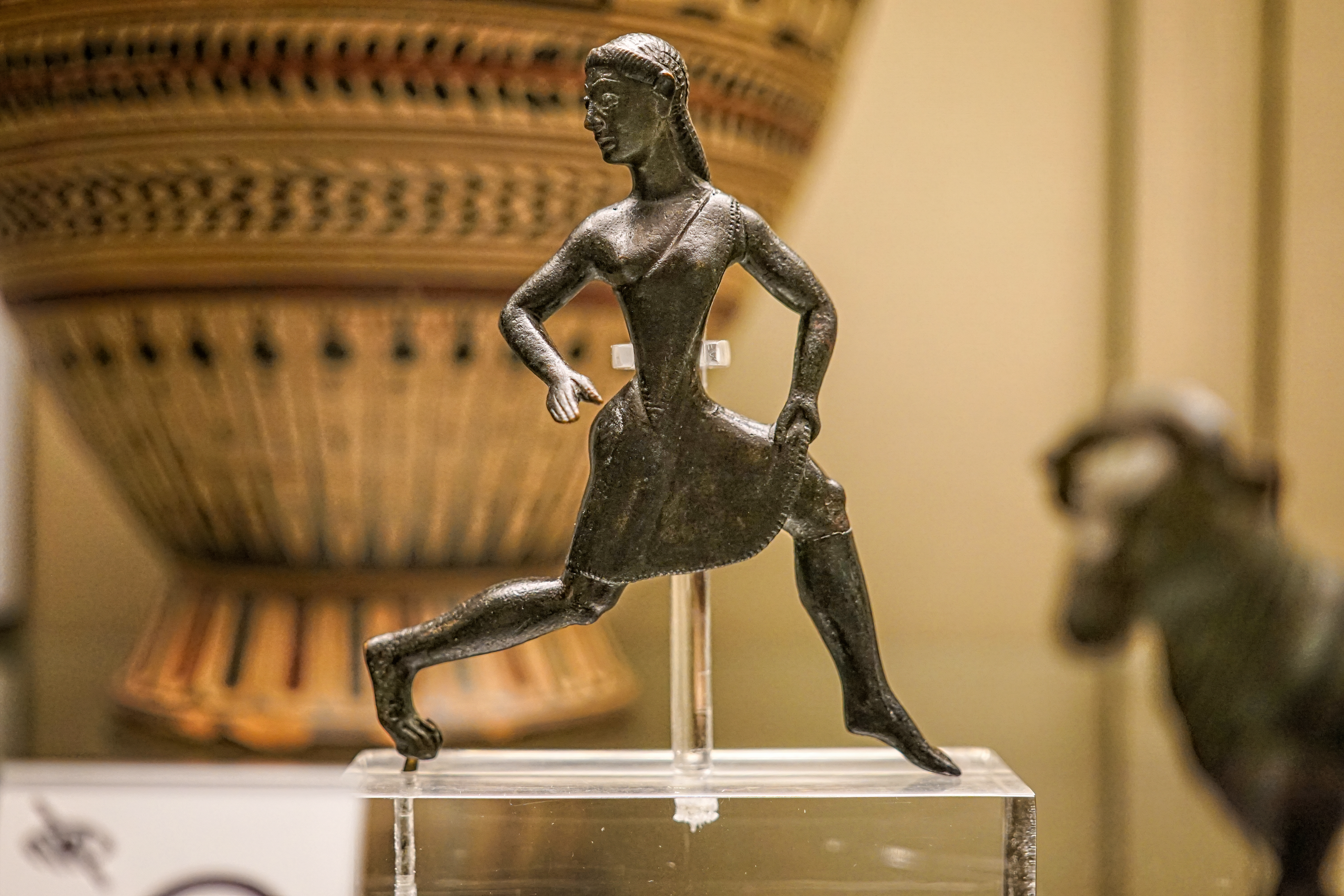 Bronze figure of a running girl, 520-500 BC. Spartan. Found in Prizren, Serbia. The short chiton bearing one breast which the figure wears matches the outfit that Pausanias says was worn by athletes competing in the Heraean Games.